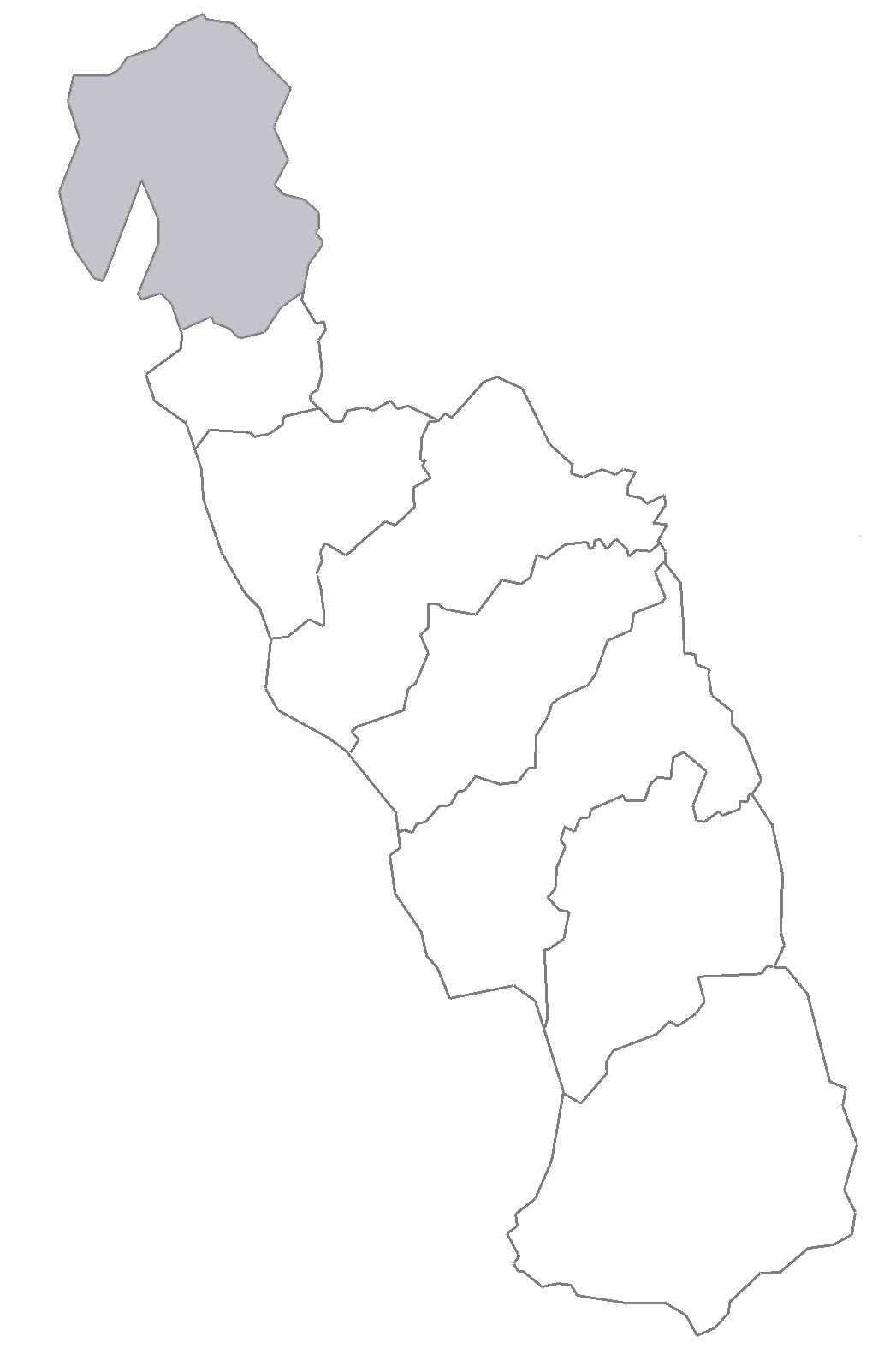 Map describing the location of Fjäre Hundred in the province of Halland, Sweden.